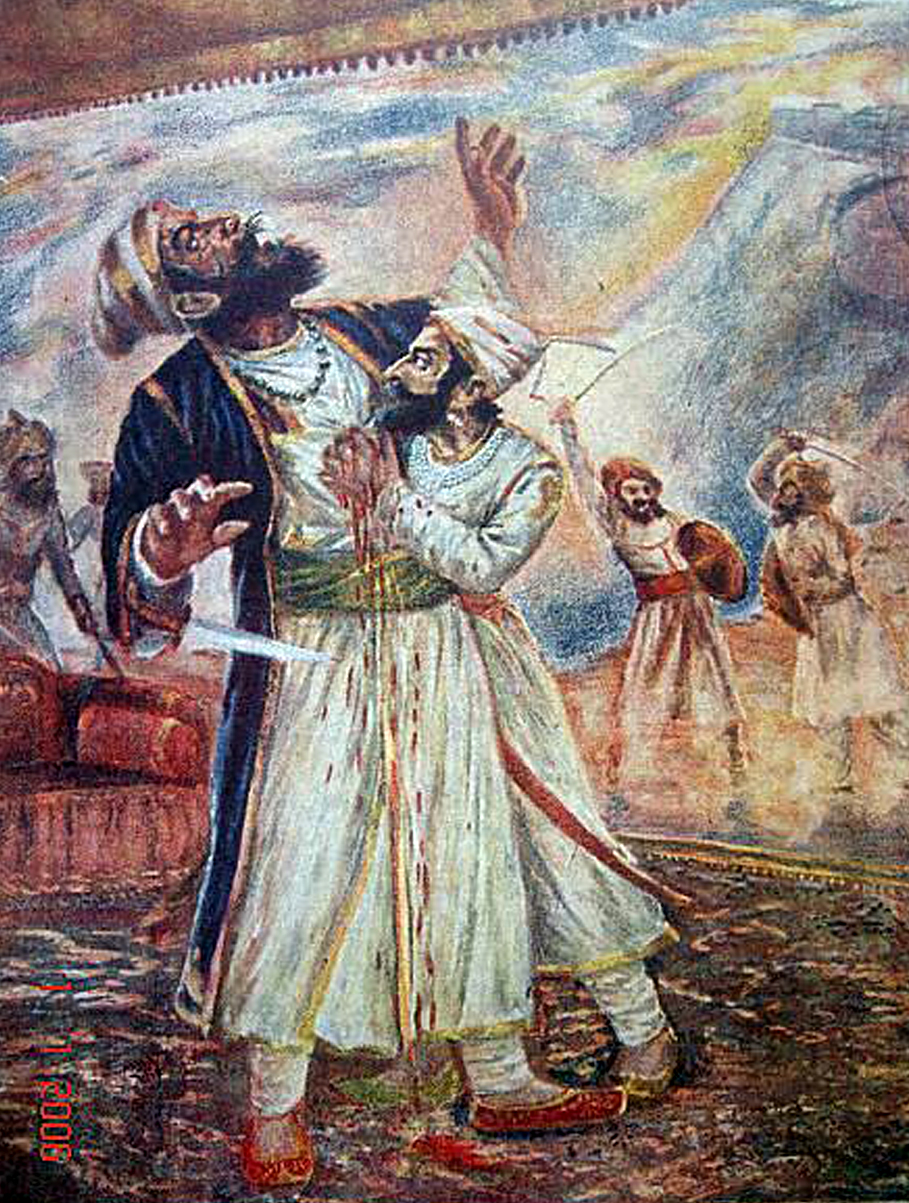 The traditional story is that Shivaji used steel "tiger claws" to disembowel the Bijapuri general Afzal Khan after they had met to negotiate (Chitrashala Press, Poona, 1920's)